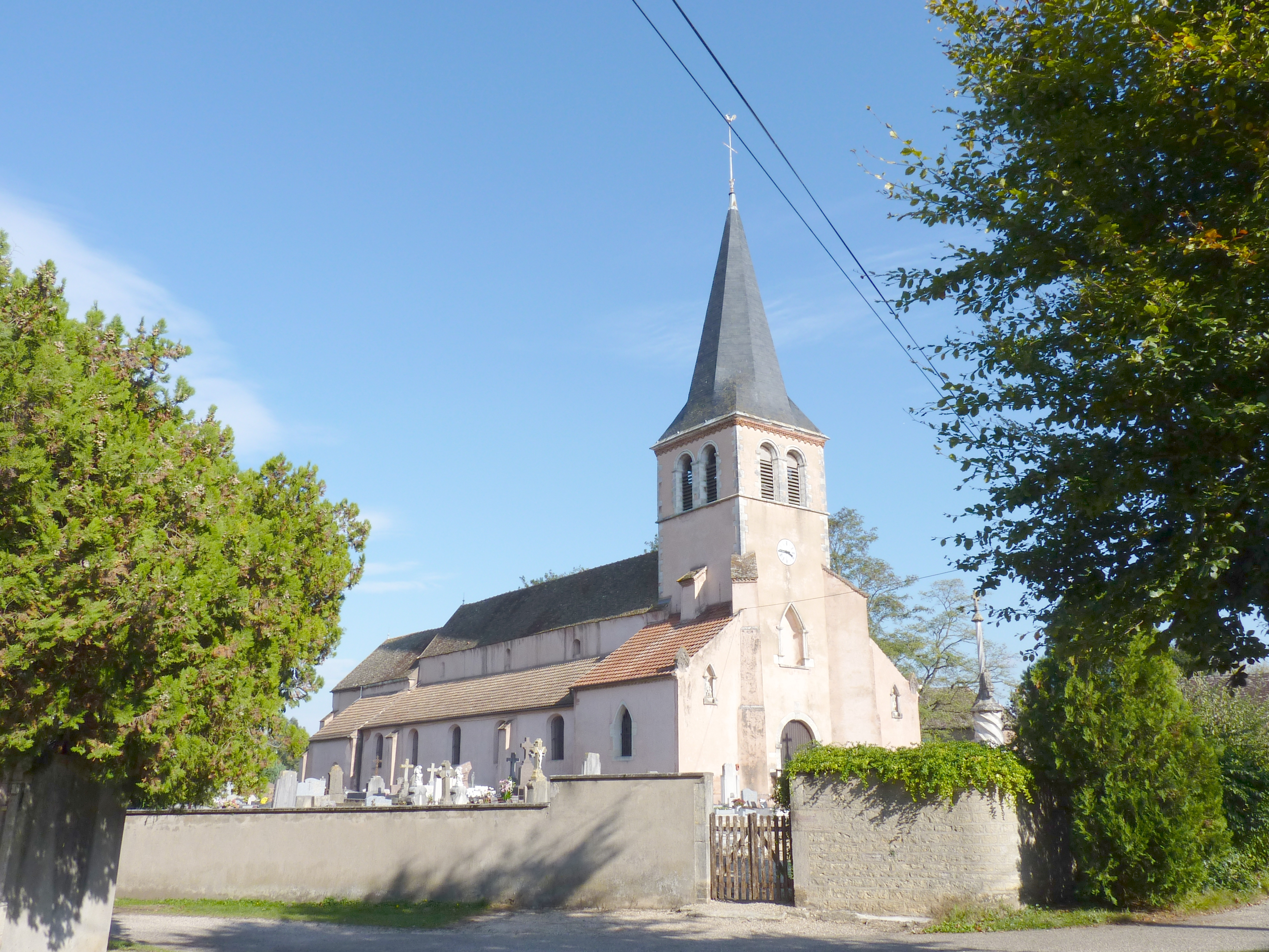 Church of Pagny-la-Ville (Côte d'Or, Burgundy, France)